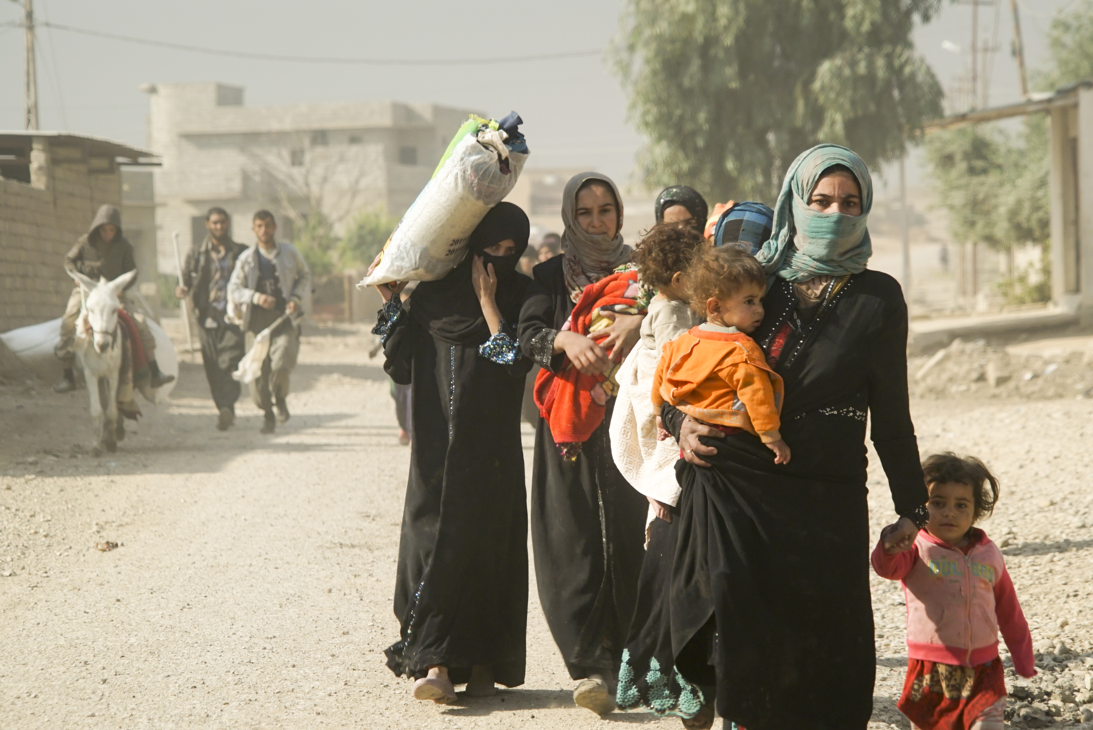 Iraq IDP Crisis refugees in Mosul, Northern Iraq, Western Asia. 06 November, 2016.